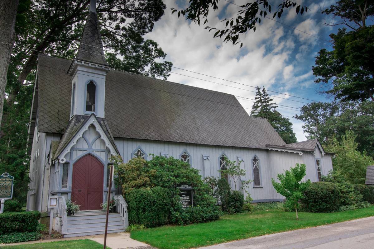 100px